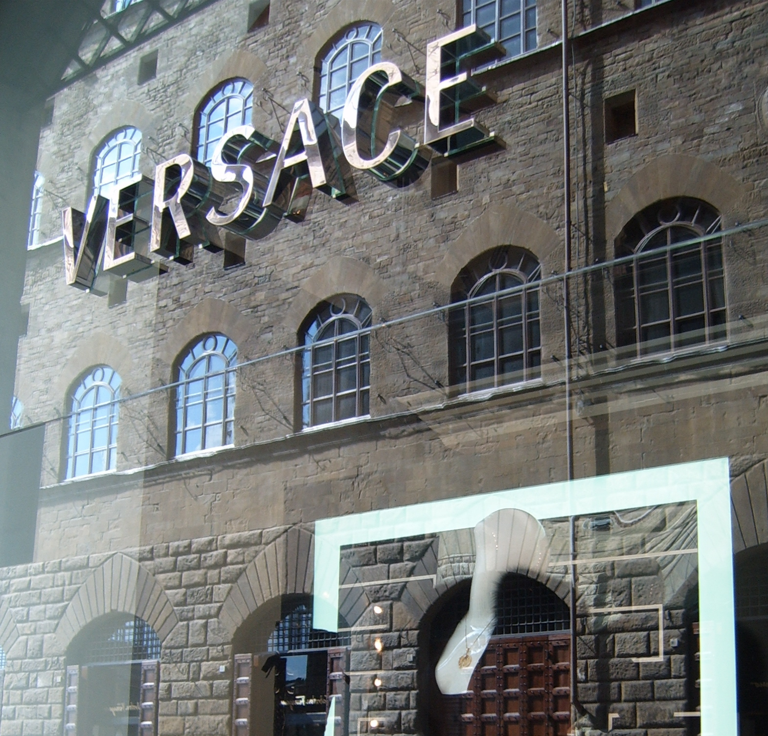 Versace shop window in Via Tornabuoni, Florence (Italy)